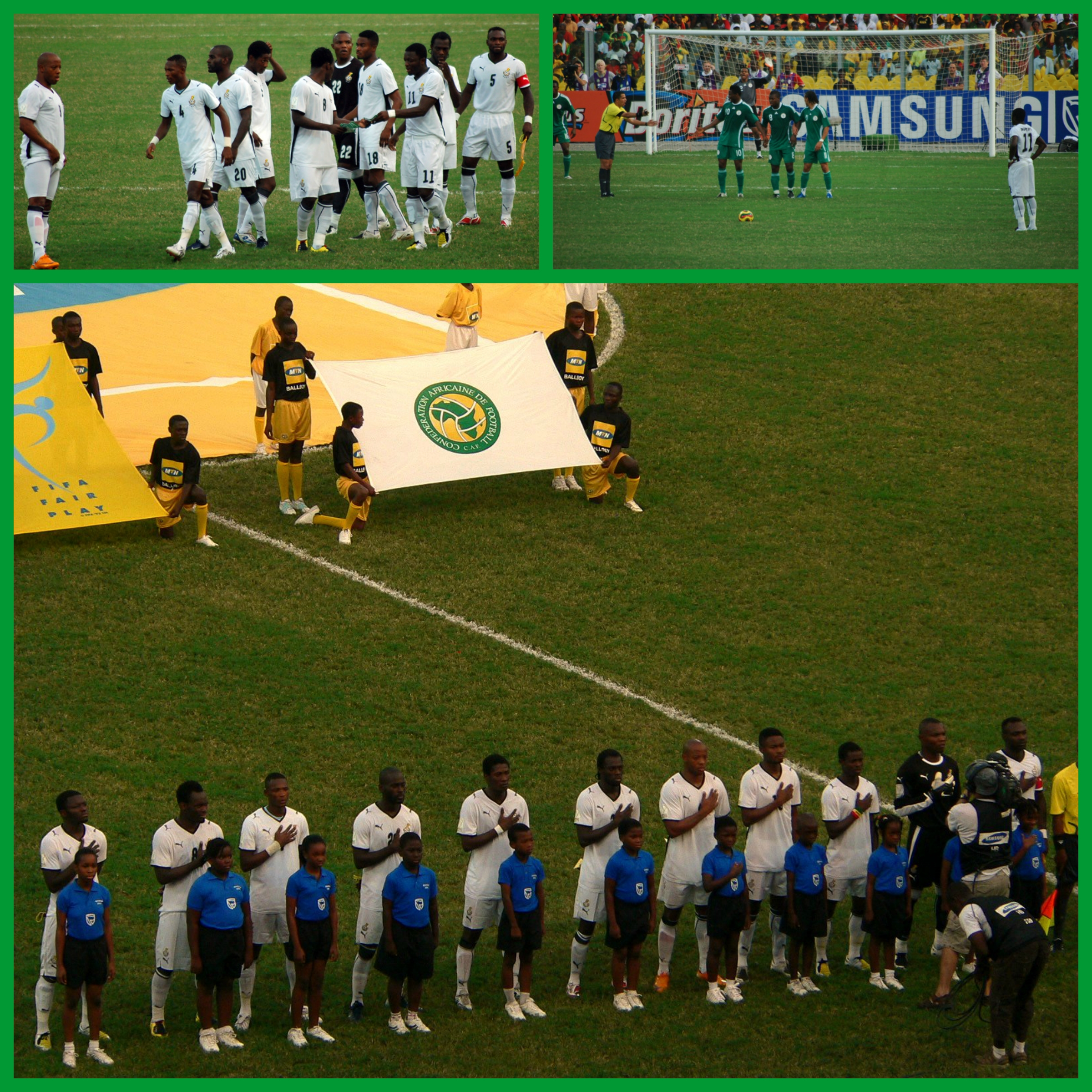 Black Stars (Ghana national football team) Africa Cup of Nations history.